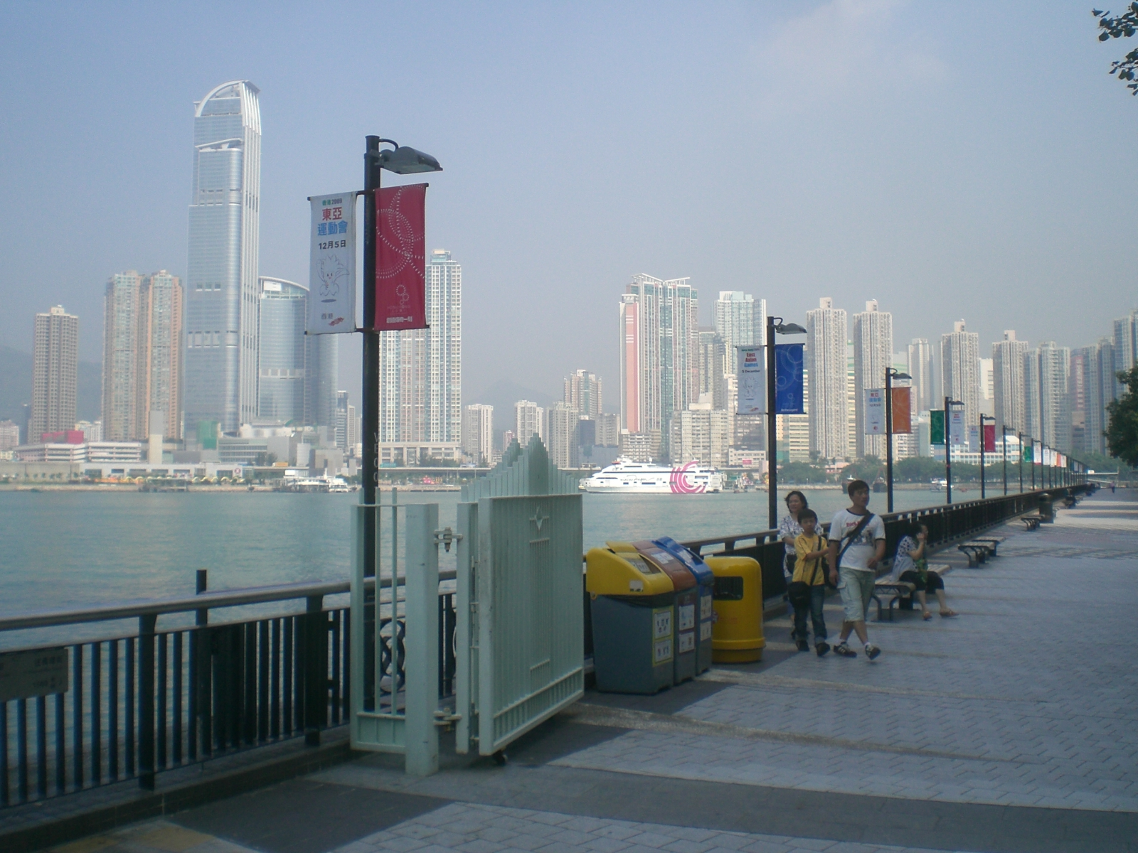 青衣島青衣海濱公園 外望 對岸如心廣場